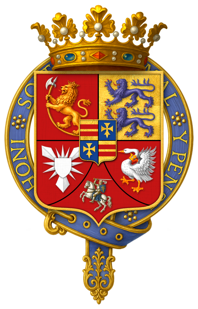 Coat of arms of Adolf, Duke of Holstein-Gottorp, KG